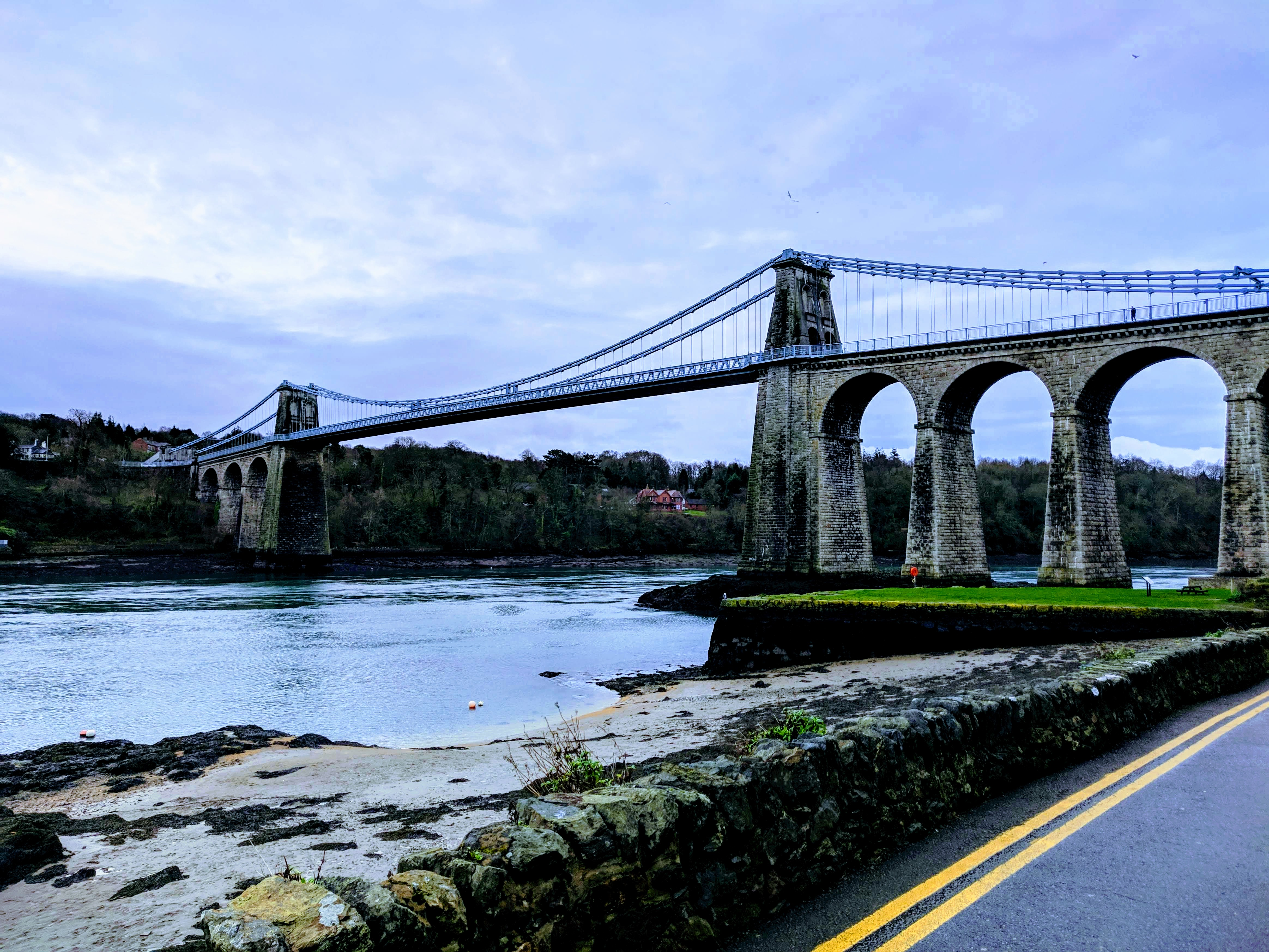 Picture of the Menai Bridge